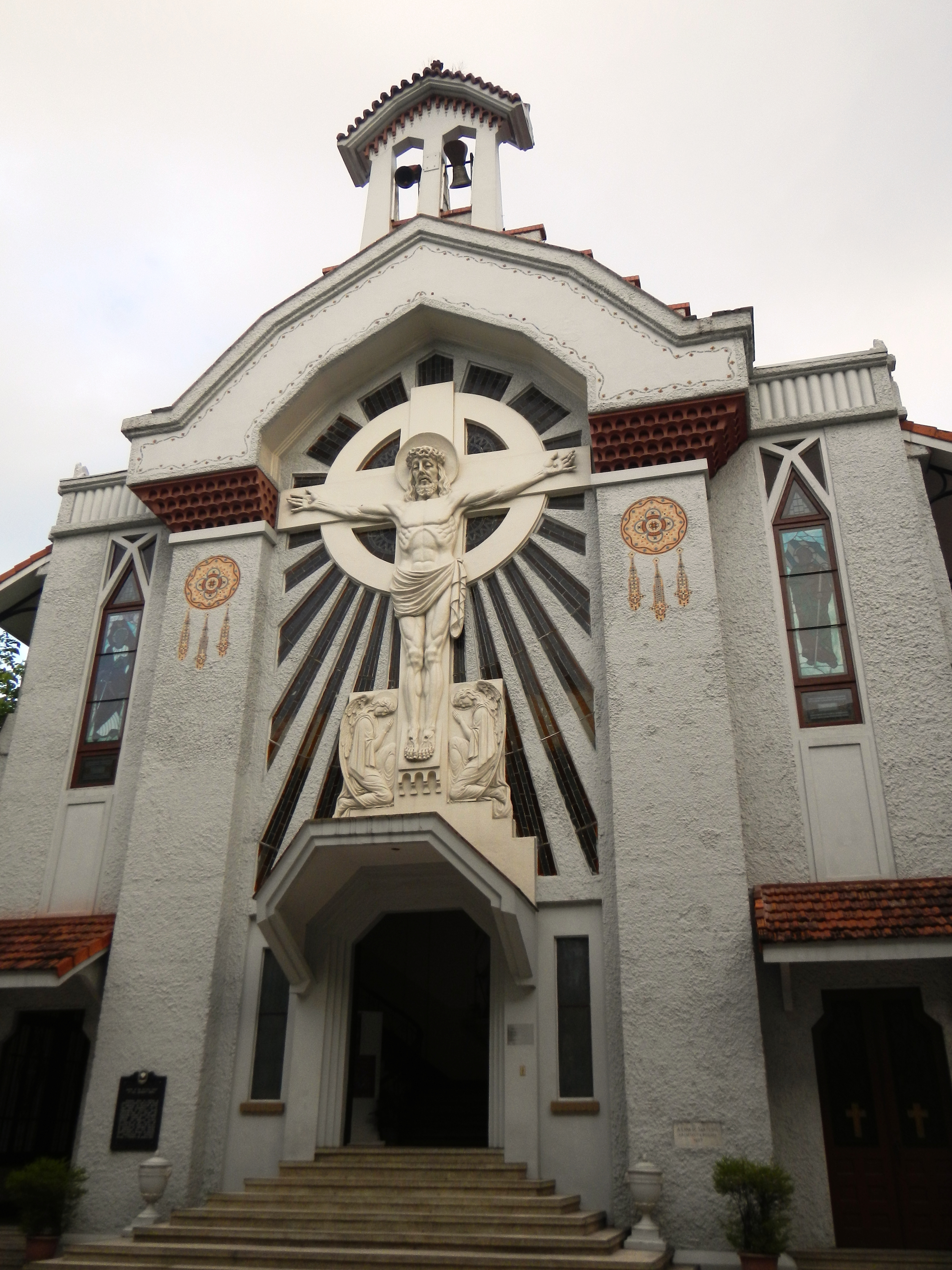 St. Paul University Manila wedbsite SPUM - Sculpture in the Philippines, by Julie LLuch, and architect, Emmanuel R. Gatus, blessed on January 25, 2012, 1927 established Chapel of the Crucified Christ 1912-2012 Centennial Commemorative Historical Marker, Luna de San Pedro, architect and builder Marker, beside the Founder's Hall contains the Portraits of all Presidents, in front of the buffet, feast in the Installation of 9th President, Sr. Evangeline L. Anastacio, SPC, Solemn Investiture preceded by Sr. Lilia Thérèse L. Tolentino, SPC.Buffets in the Philippines